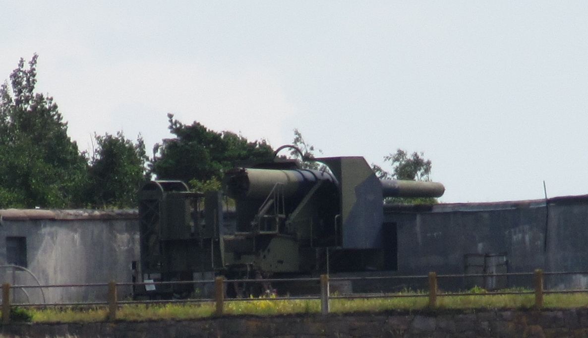 254 mm 45 caliber model 1891 coastal gun on Durlacher mount in Kuivasaari. Manufactured by Obukhov in 1906, serial number 114. Cropped from File:254 45 D and 100 56 TK Kuivasaari.JPG.